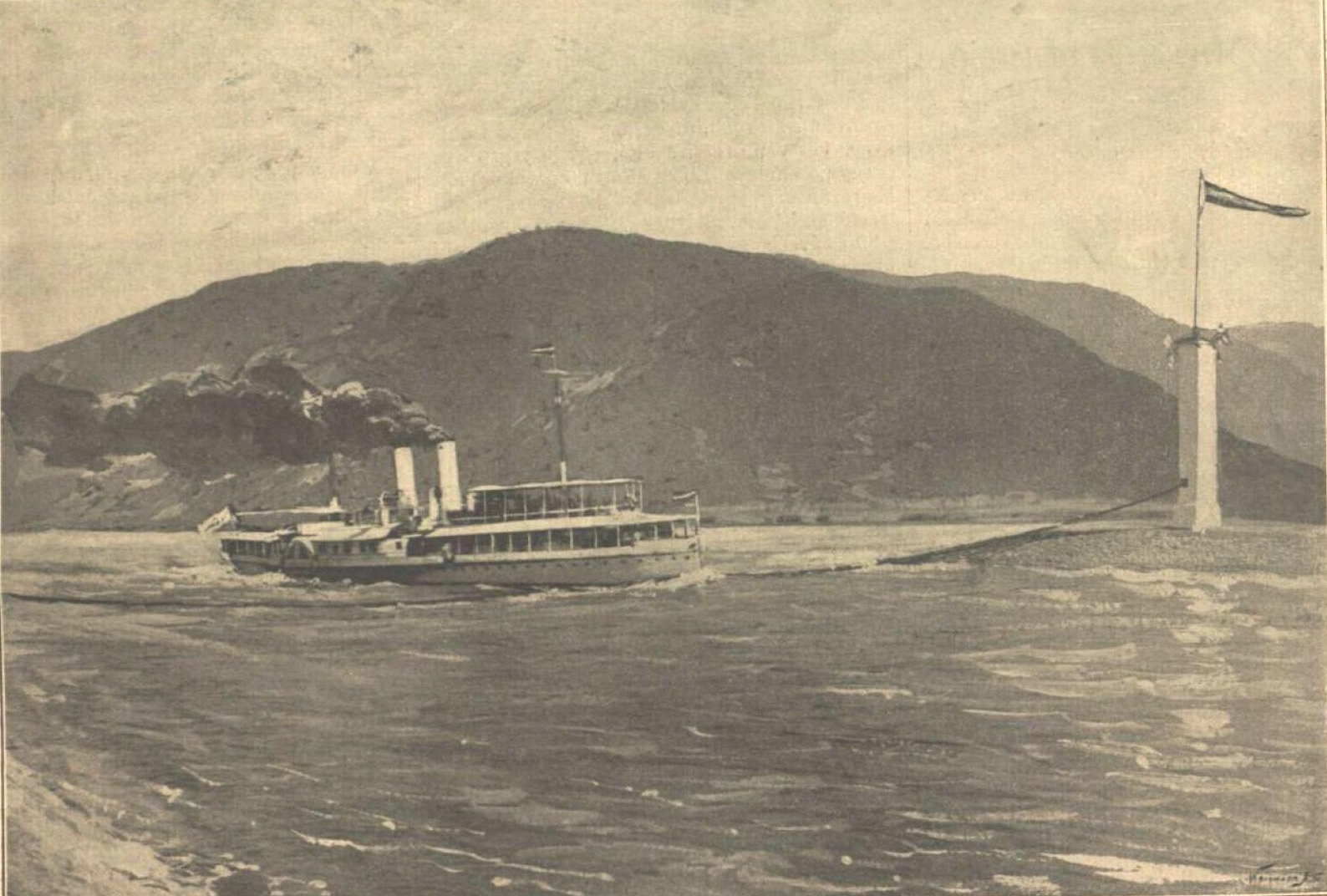 Opening of the Iron Gate waterway: the king's ship cuts the chain closing the Danube